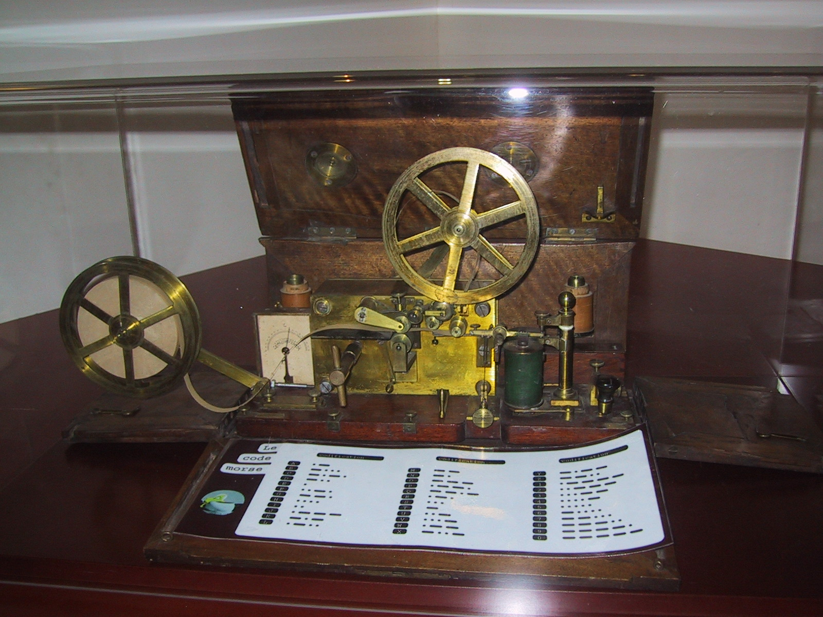 Morse Telegraph (1837), historical collection of France Telecom, Telecommunication City in Pleumeur-Bodou, France.